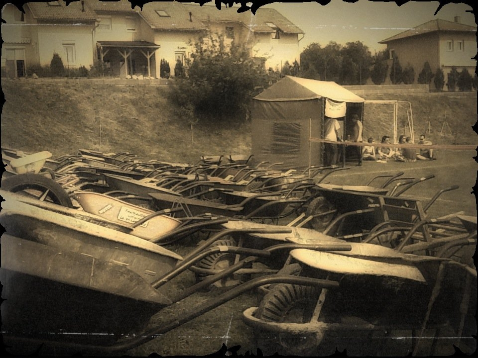 Wheelbarrow rows at the 2011 Wheelbarrow Olympics in Hosszúhetény, Hungary. These wheelbarrows were used in a march after the Games.